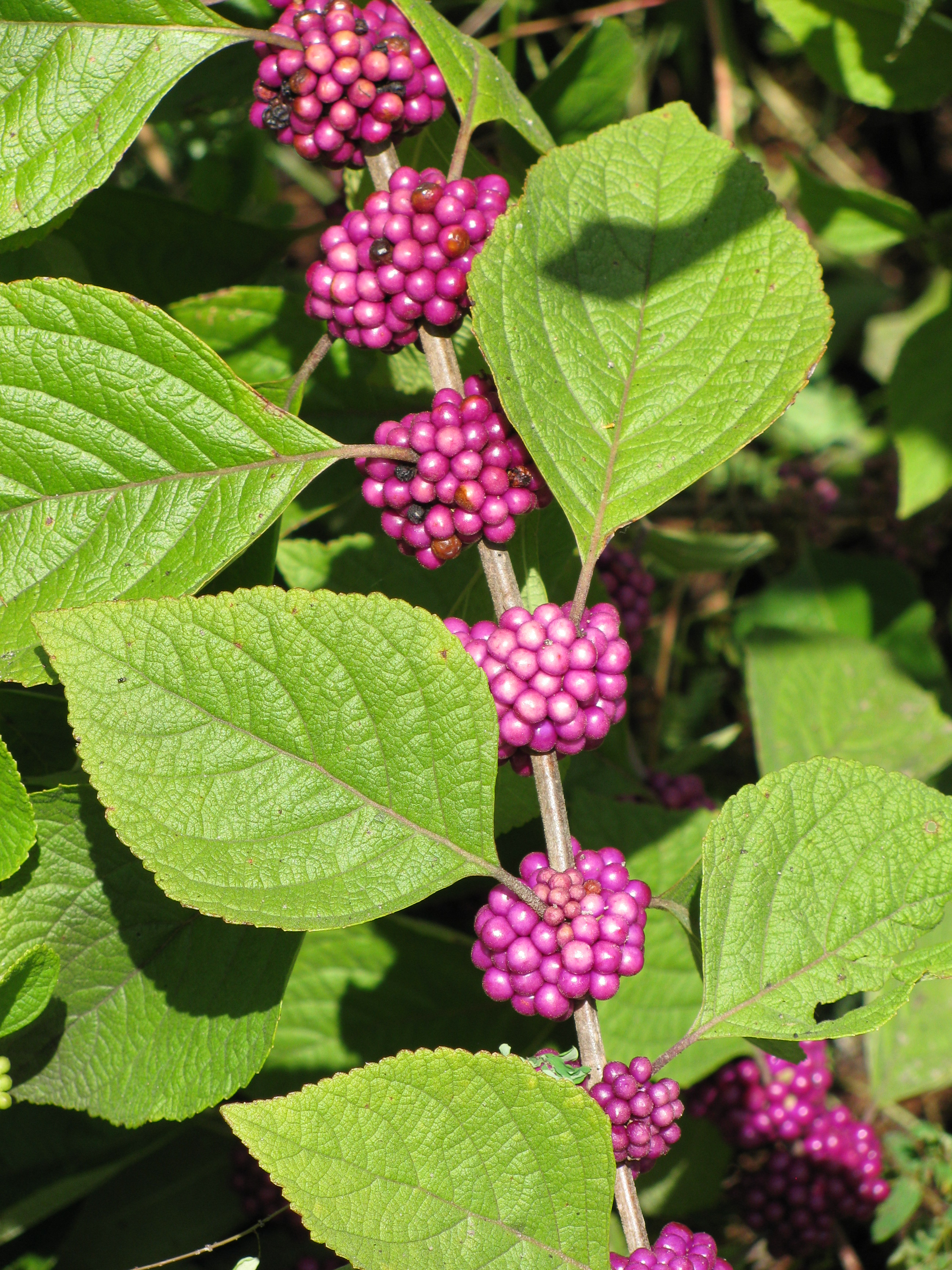 Callicarpa americana (American beautyberry) - Fruit at Loxahatchee National Wildlife Refuge, Florida. - September 26, 2009